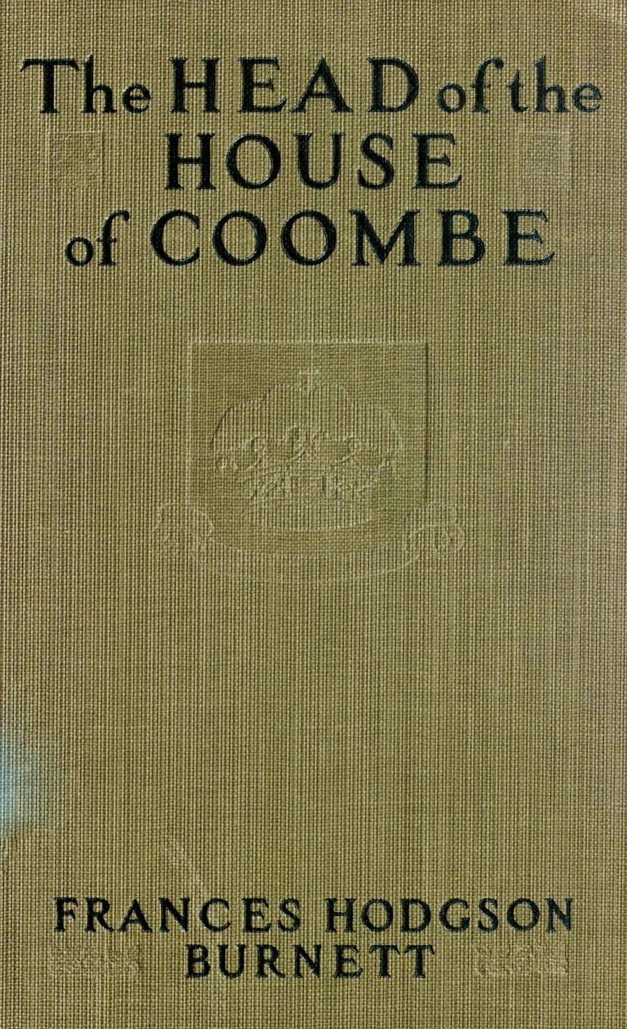 The Head of the House of Coombe 1st ed